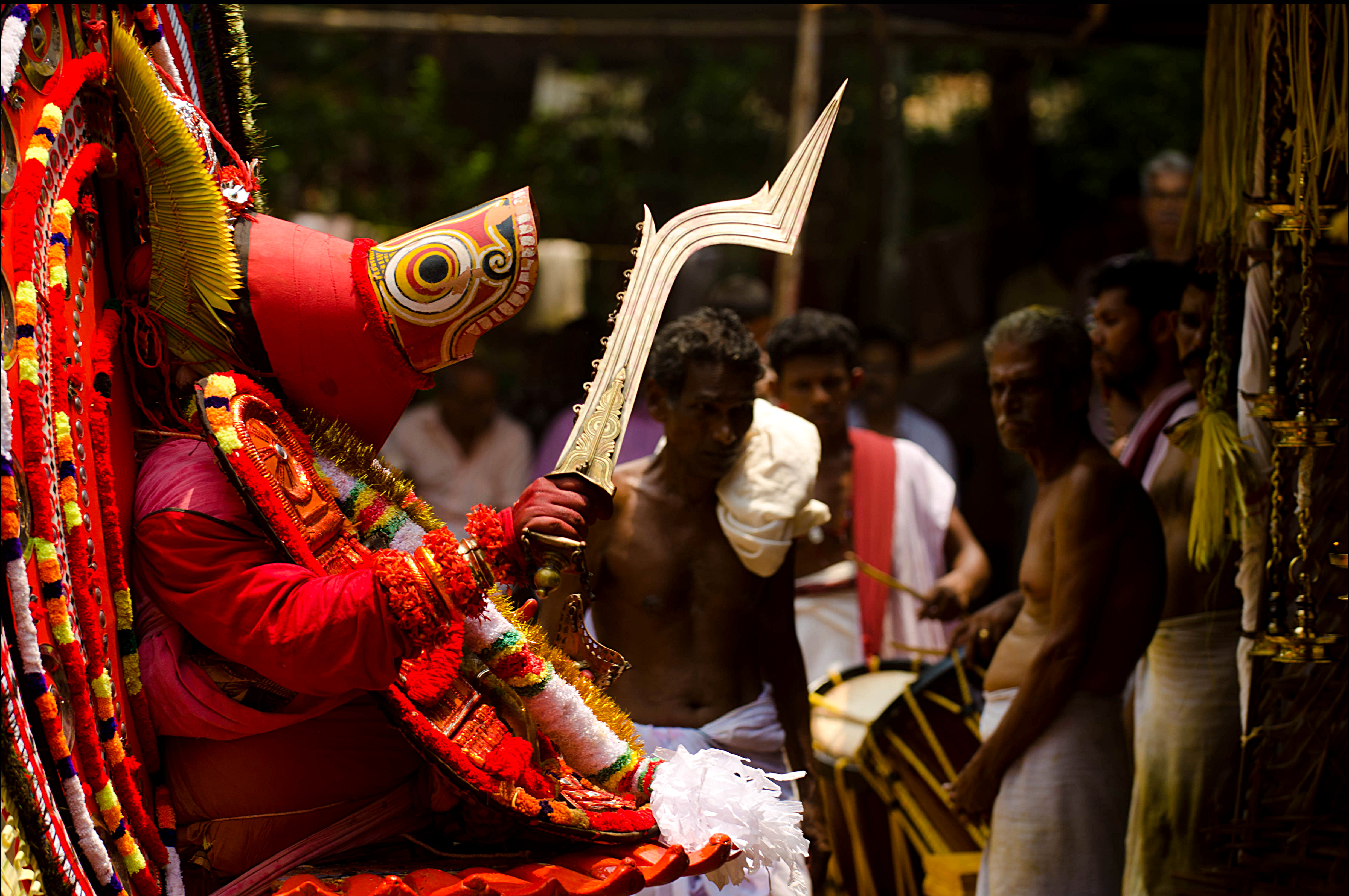 Madayil Chamundi theyyam peformed in Kunhimangalam near Payyanur